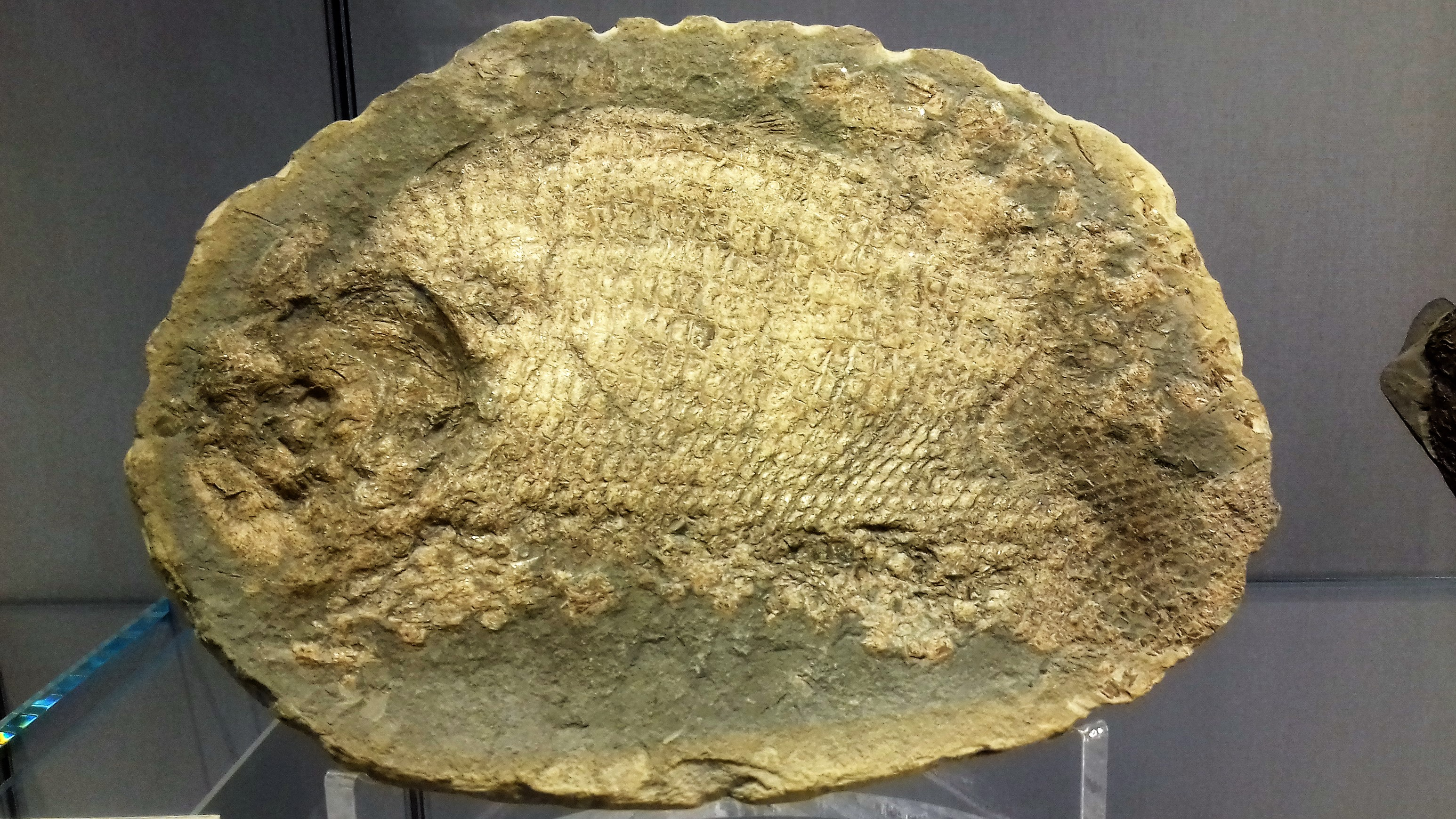 Fossilized Dapedium orbis or Dapedius orbis in the Rotunda Museum, Scarborough, England.